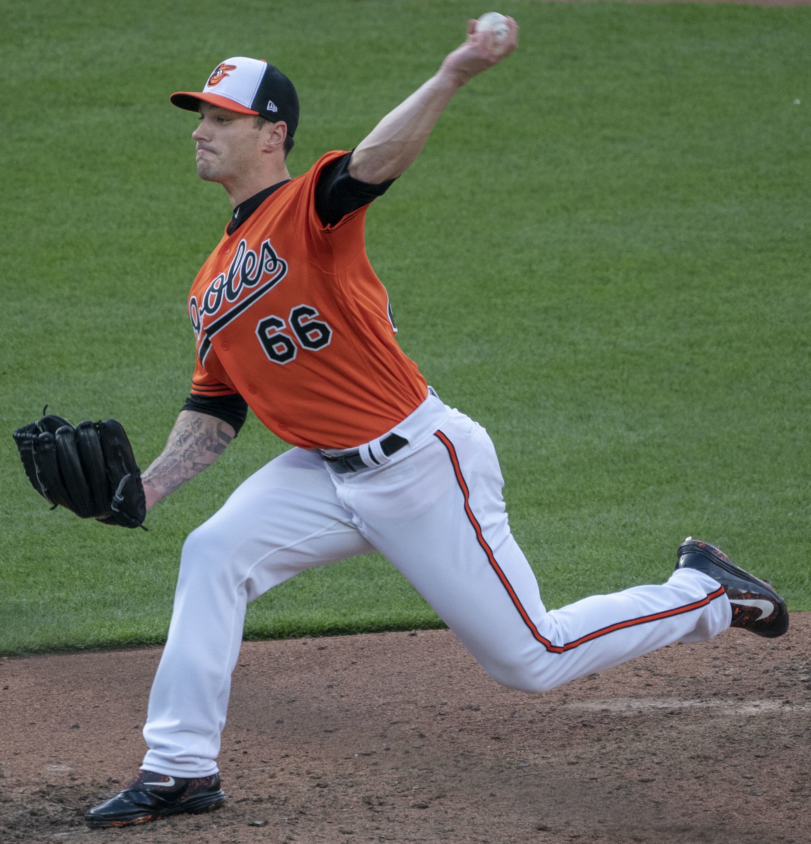 Indians at Orioles 4/21/18